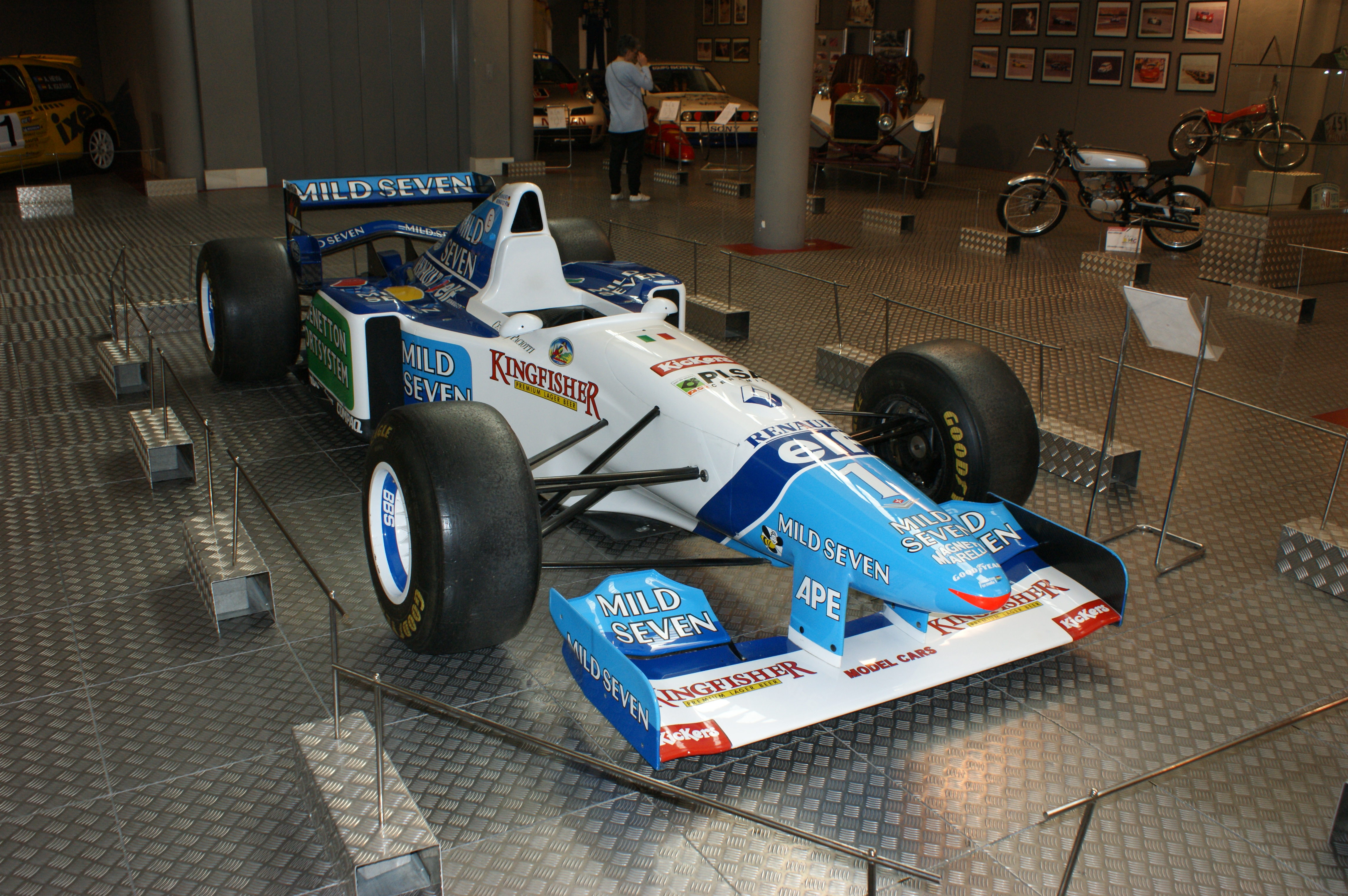 1995 Benetton-B195 RS7 V10 F1 racer in 1996 colours at the Salamanca Motor Museum, 04/08.